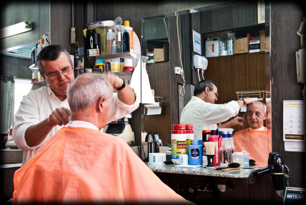 The Haircut Tel Aviv